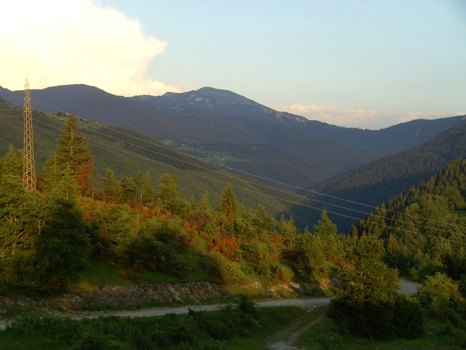 Ljubišinja hills, BiH